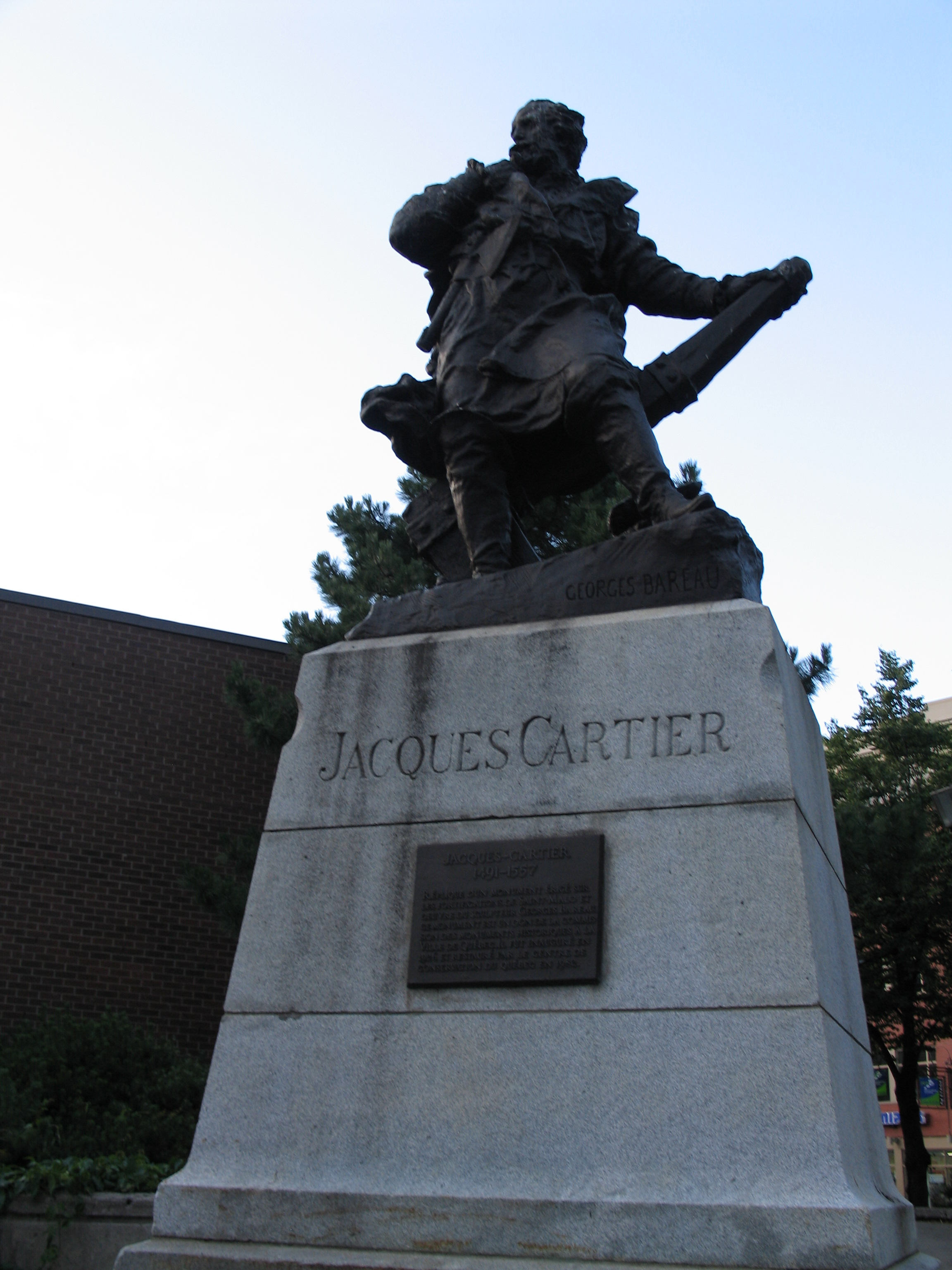 Statue of Jacques Cartier (1491-1557) in front of the Gabrielle-Roy public library and the Jacques-Cartier Square, in the Saint-Roch part of Quebec City. The statue, which is a replica of a monument in Saint-Malo, France, was inaugurated in 1926.